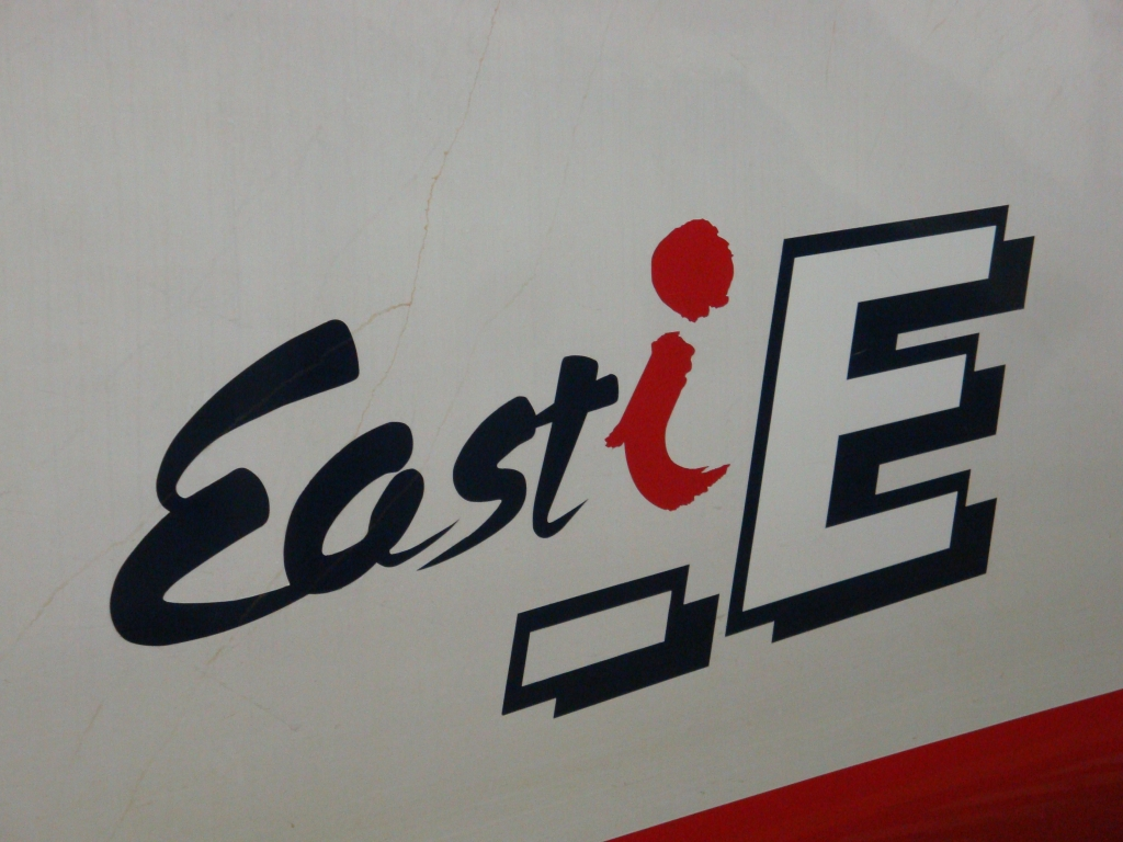 Side view of JR East E491 series EMU